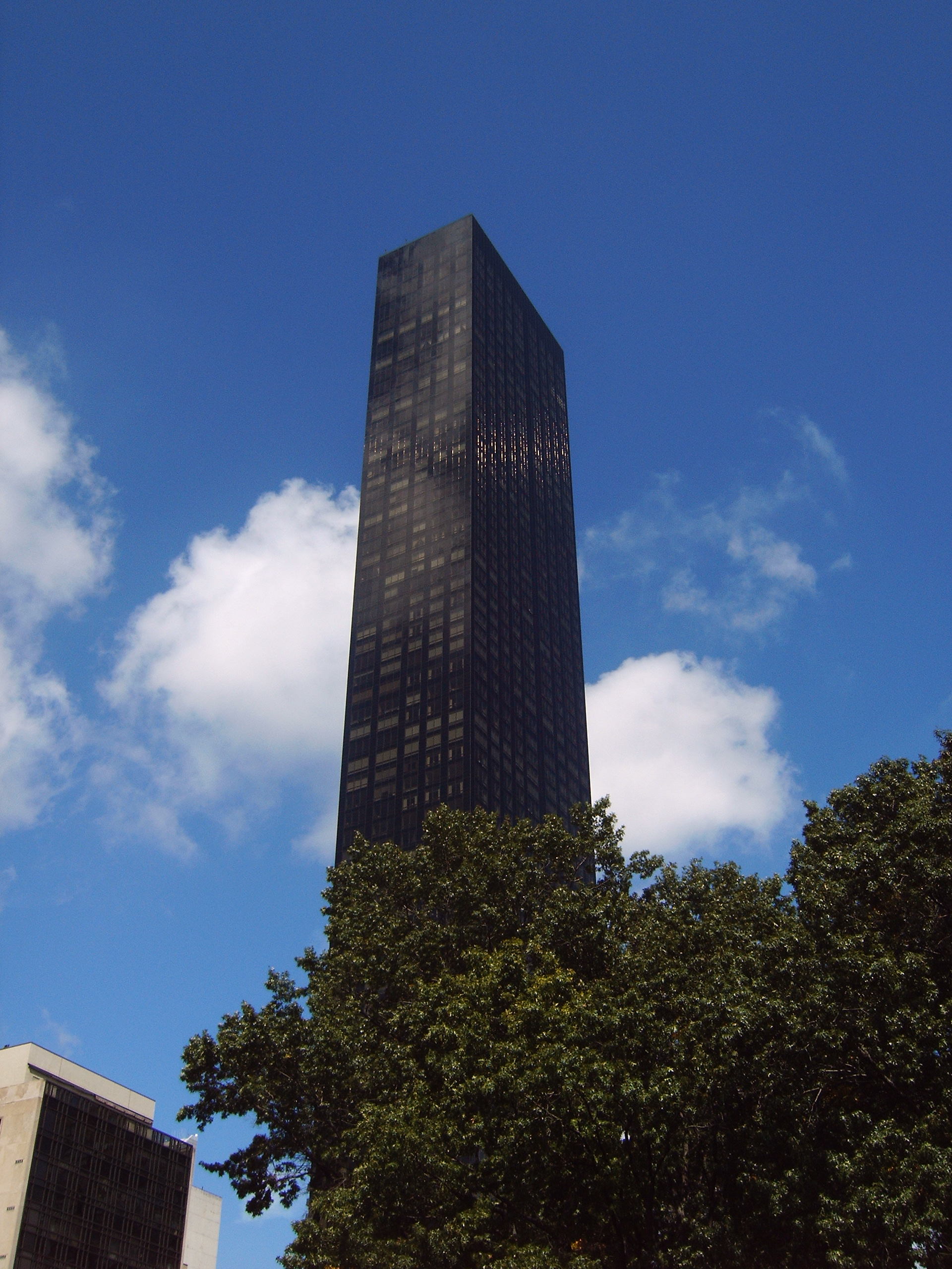 One of my favourite New York skyscrapers: the Trump Tower. It seems to be heavily influenced by the Seagram Building